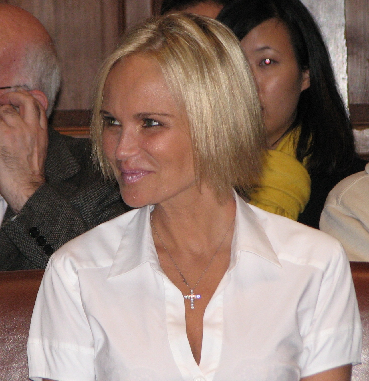 Kristin Chenoweth at the Oxford Union